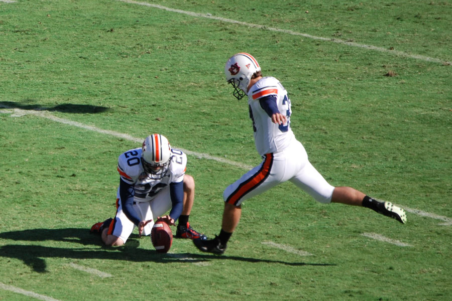 John Vaughn kicks the winning field goal for Auburn University in the 2007 Cotton Bowl in Dallas, Texas